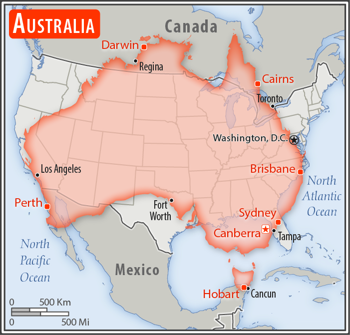 Comparison of the areas of two country. The area of Australia with biggest cities (red) overlay the area of the United States of America (gray background).